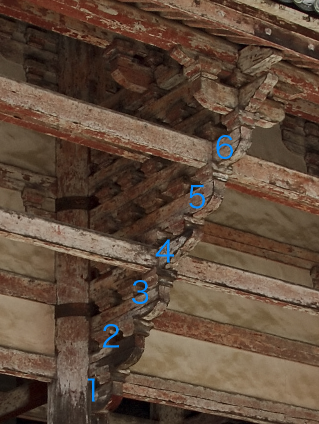 Todaiji in Nara, Nara prefecture, Japan